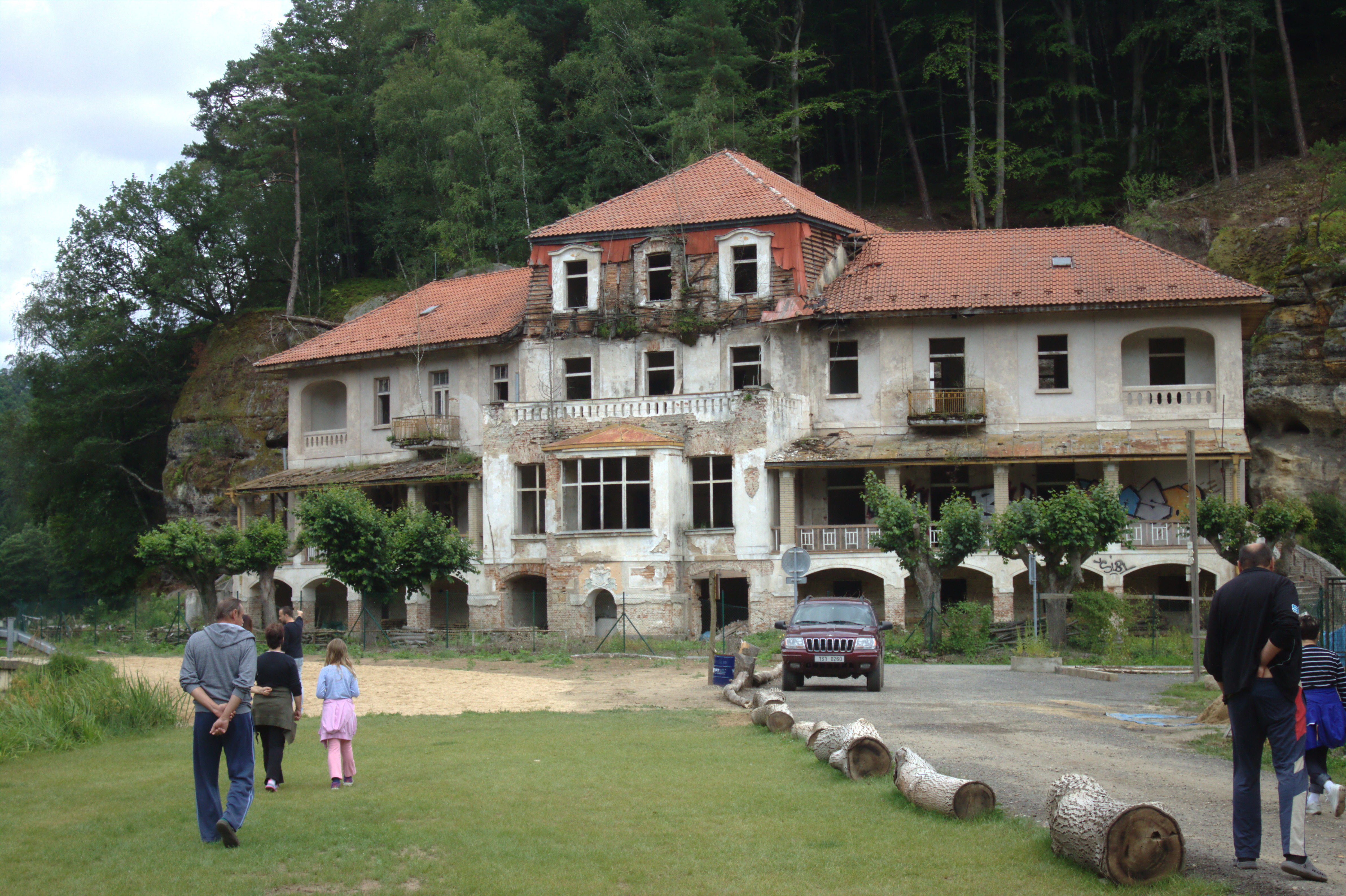 A former restaurant in Harasov, Central Bohemia, CZ